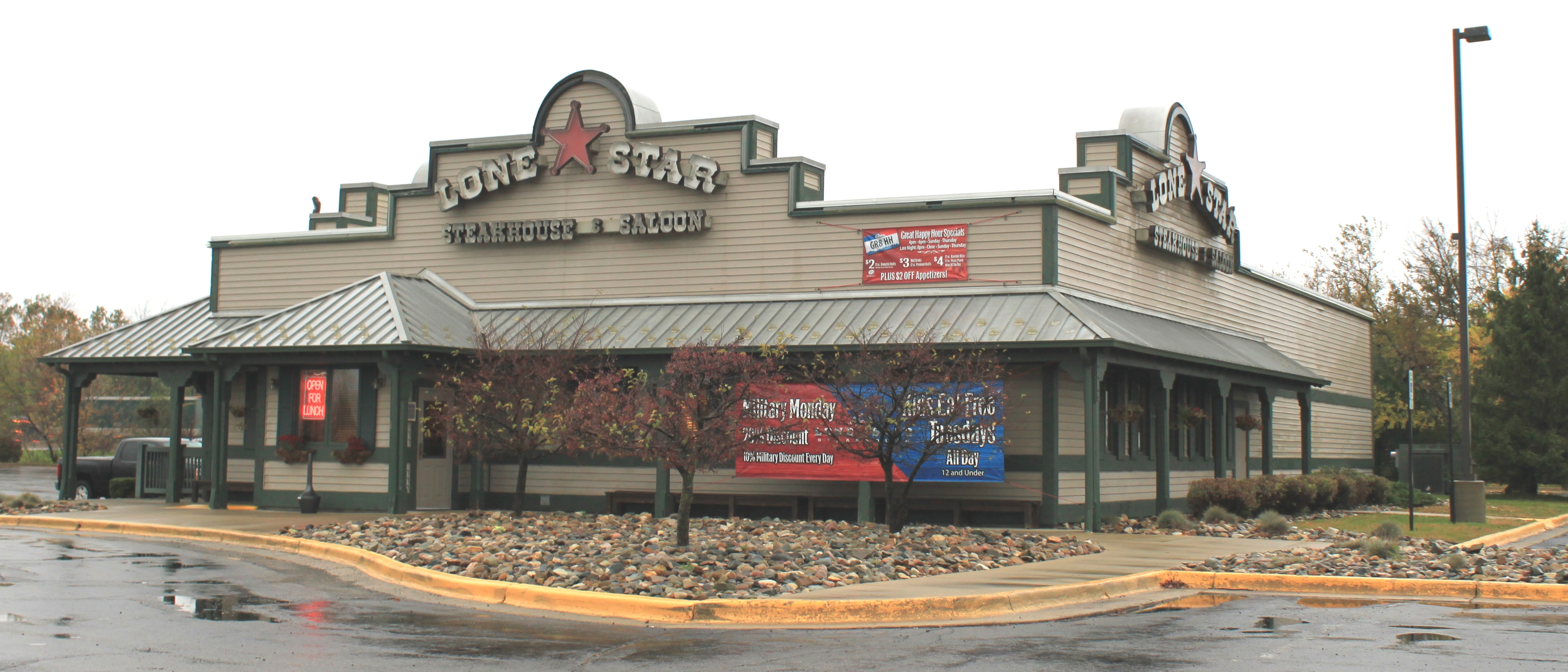 Lone Star Steakhouse & Saloon, 3510 O'Neil Drive, Jackson, Michigan